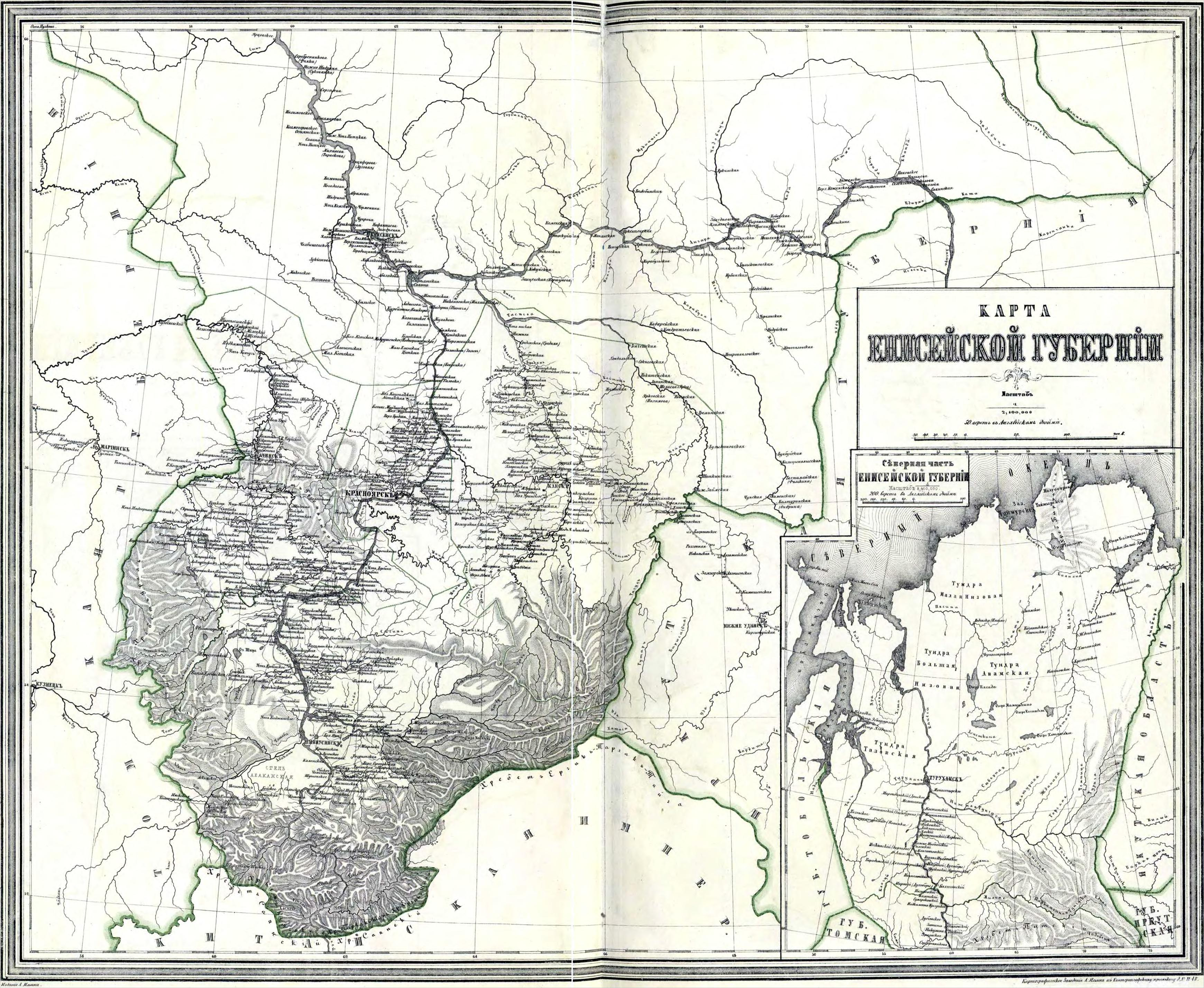 The publication of the cartographic institution of A. Ilyin. Censorship is allowed. St. Petersburg, May 12, 1871